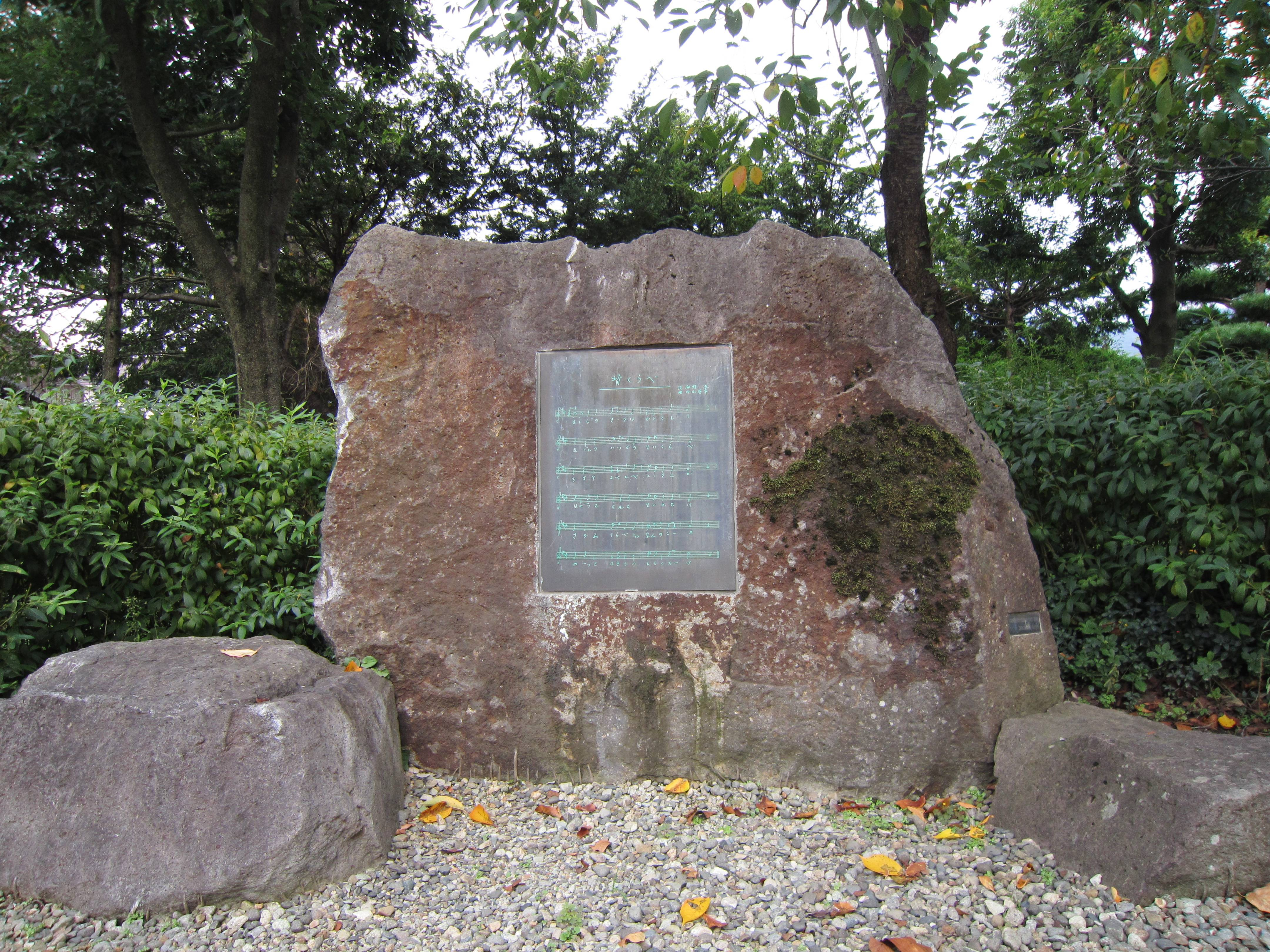 Nakayama Shinpei 'Seikurabe' monument.